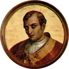 portrait of papa Domus of 676 in the Basilica of of Saint Paul outside the Walls, Rome